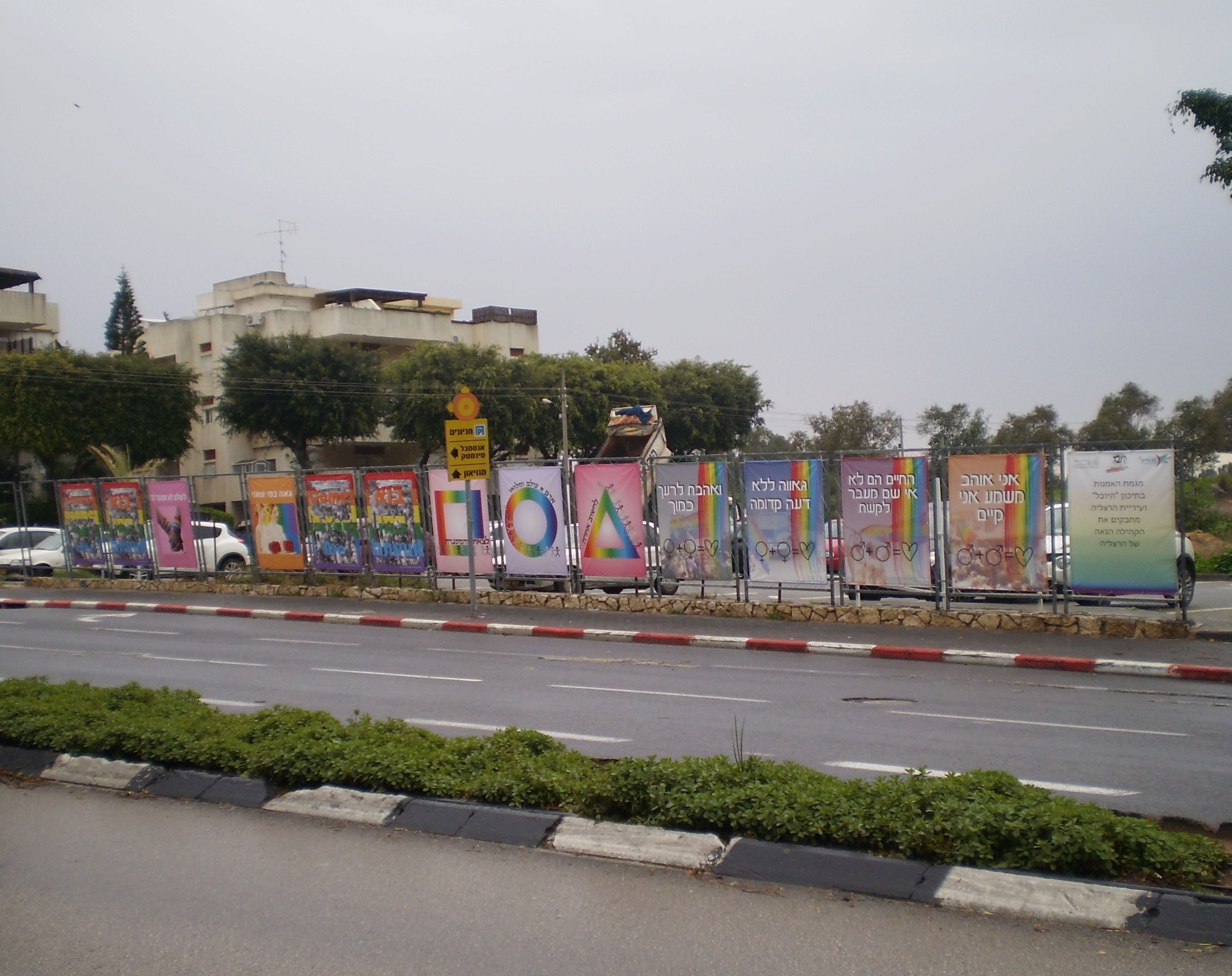 Herzliya hugs the gay community